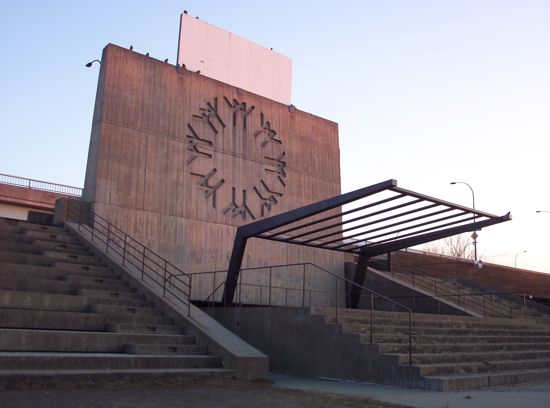 Summary: The "Place des nations", part of the Montreal universal exposition of 1967 Author: Colocho Date: April 26th, 2006